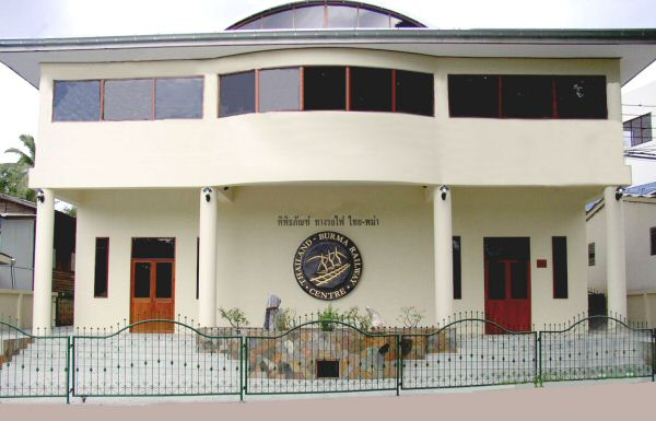 View of the Centre from Jaokannun Road, Kanchanaburi